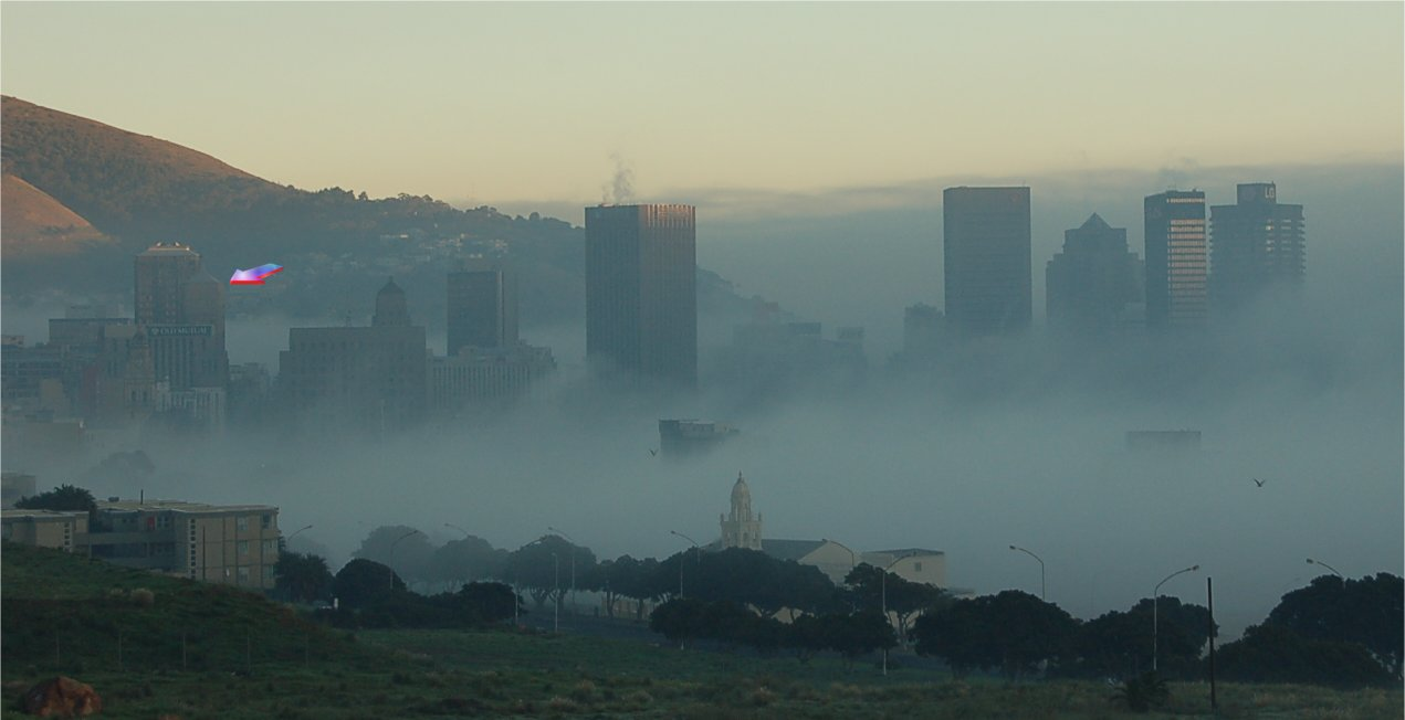 The sea fog hangs over Cape Town - the Mutual Building (see the arrow) that was once reportedly the tallest building in Africa is now dwarfed by more recent buildings, including the one behind it. Shame.